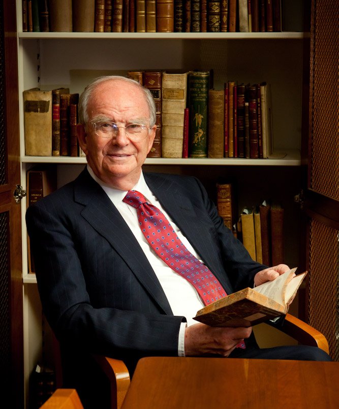 Photograph of Sir John Meurig Thomas in the rare book room at the Science History Institute, Philadelphia, PA, USA.